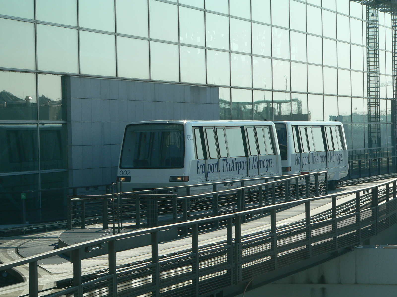 SkyLine, a line between the terminals of the airport in Frankfurt/Main, Germany